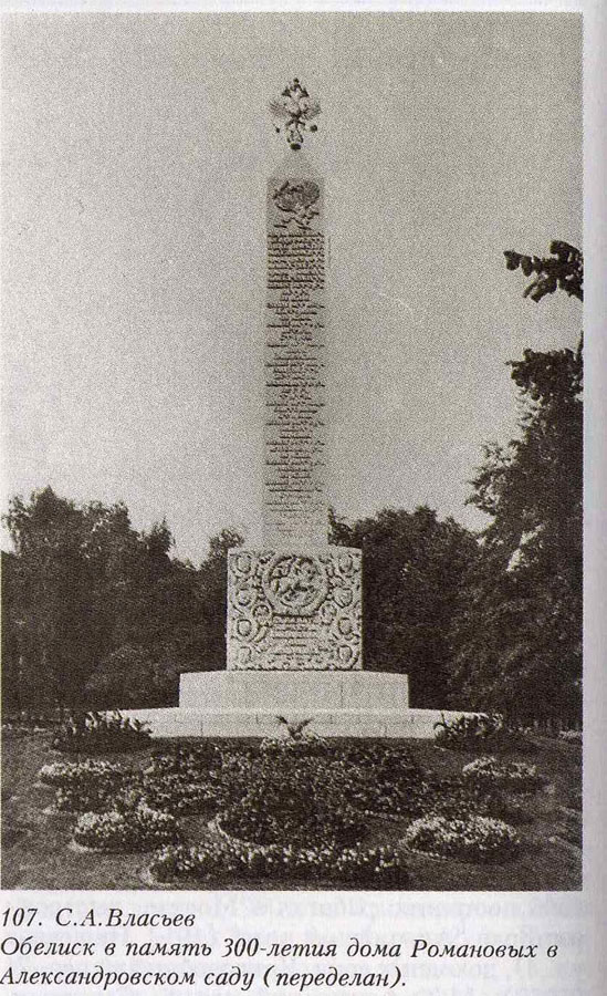 Romanov Tricentenarial Memorial in Moscow Alexander Garden, erected in 1914 commemorating 300 years of the Romanov dynasty. Pre-1918 appearance; later the eagle and the COA were removed, and the names of tsars and emperors replaced with the names of revolutionaries or socialists (including Sir Thomas More and Gerrard Winstanley).